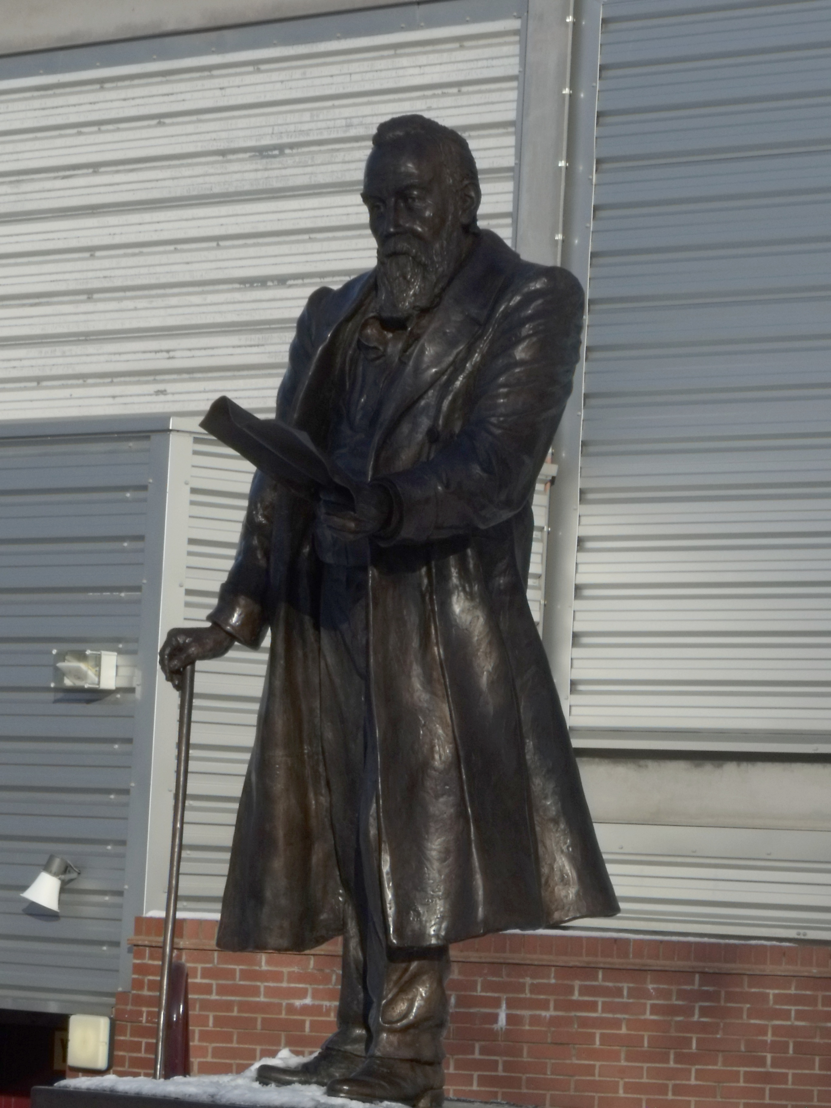 A statue of William McGregor outside the Trinity Road Stand of Villa Park. McGregor served the club in various capacities including Director, Chairman and President from 1877 to his death in 1911. McGregor founded The Football League, the first organised League for association football in the world.